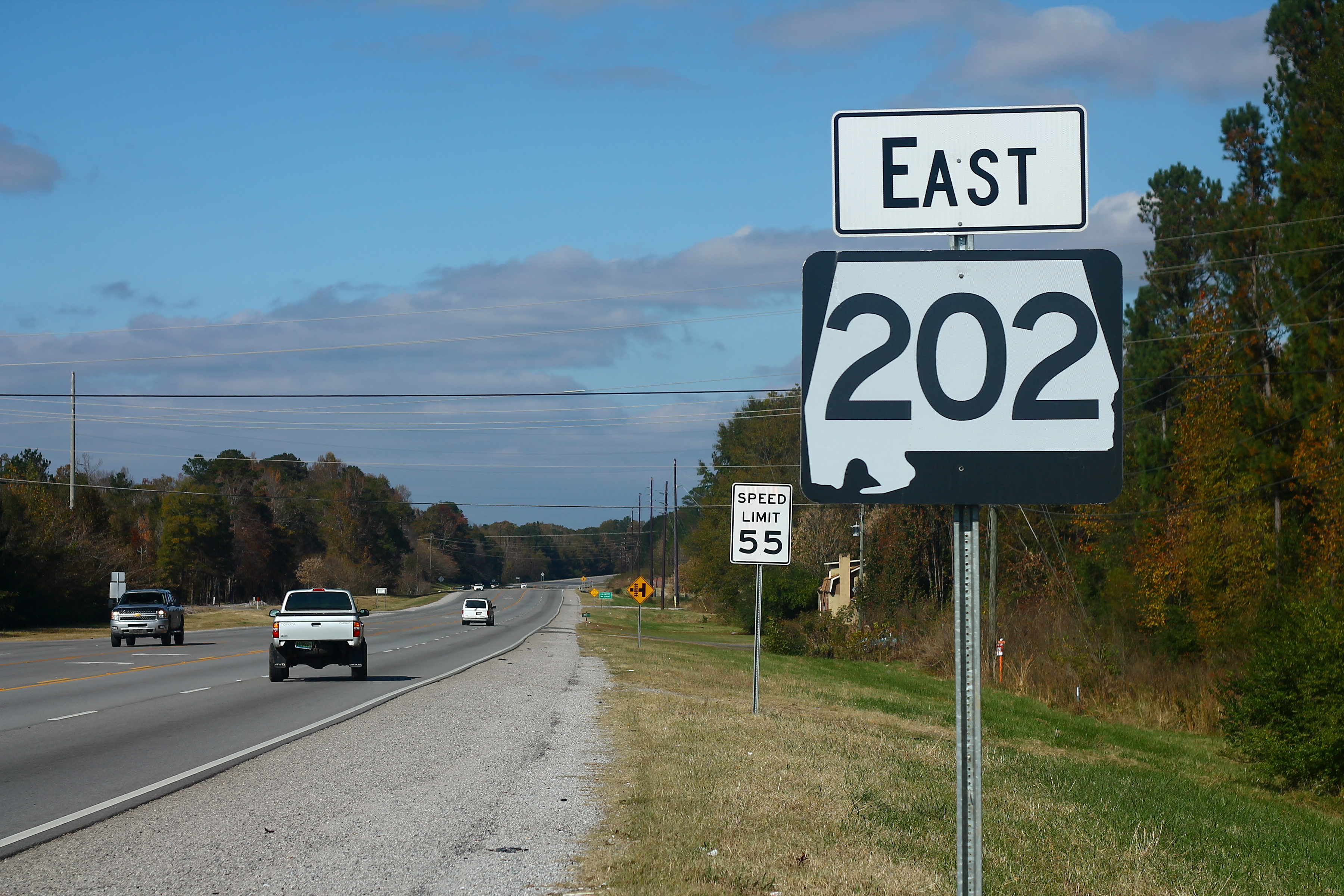 AL202 East Sign at US78